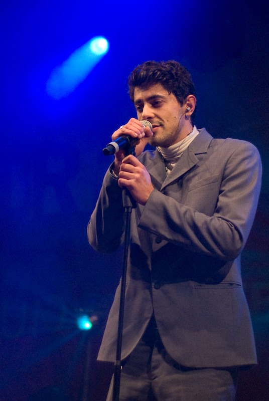 The band "Ruben Cossani" from Hamburg at a concert in Hamburg HafenCity on the occasion of Germany's national holiday in 2008